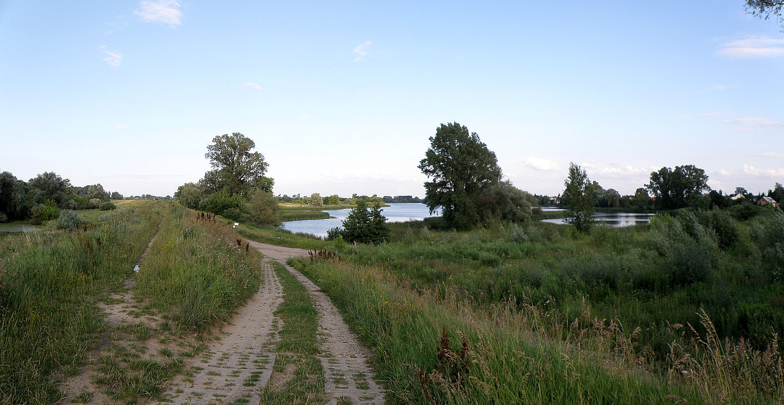 Dziekanów Nowy viilage, Dzieknowskie Lake, Nasovian voivodship, Łomianki commune